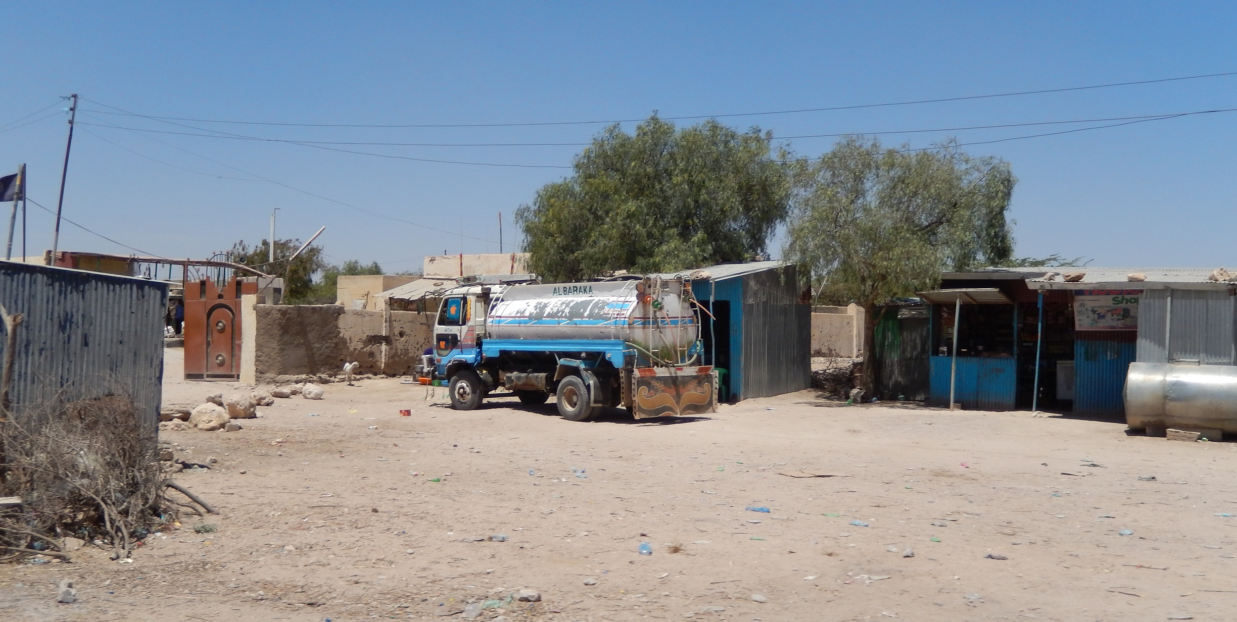 Water truck in Abaarso, a village 15 km West of Hargeisa (Woqooyi Galbeed region (Maroodi Jeex), Somaliland, Somalia). Abaarso is on the main road from Hargeisa to the Ethiopian border.